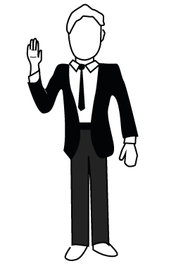 Referee gesture for Koka